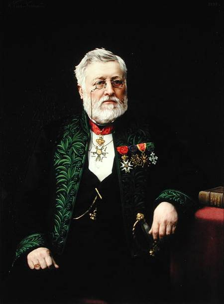 French antiquarian Leon Renier (1809-1885)